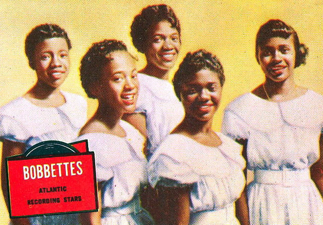 Trading card photo of the 1950s musical group, The Bobbettes. In 1957, Topps gum cards issued a series of movie stars, television stars and recording stars. The Bobbettes were part of their recording stars cards.